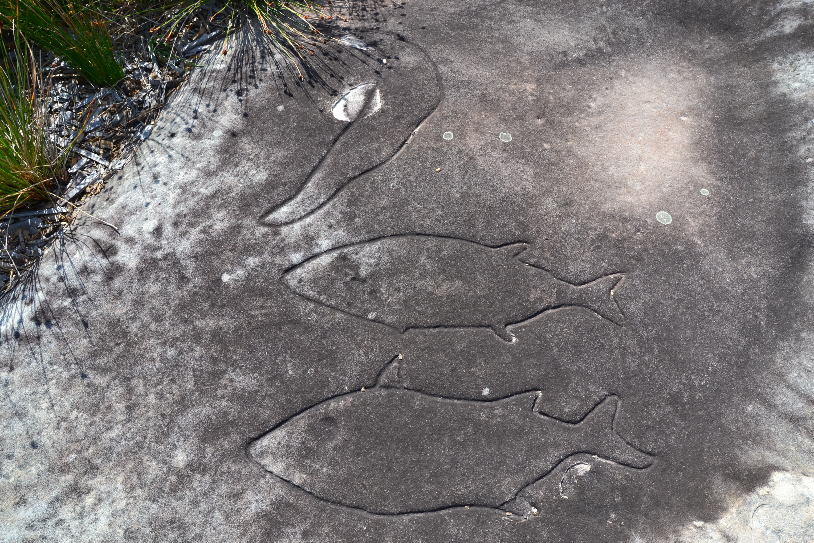 Abor. carvings, Nth Bondi, Sydney